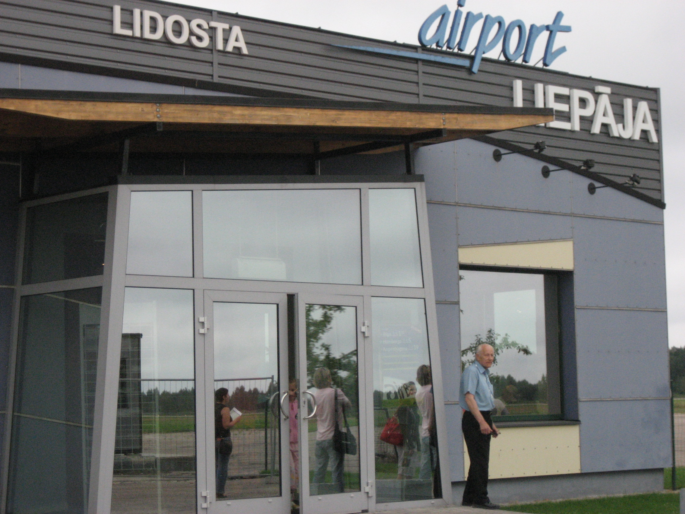 Photo taken on August 24, 2007.